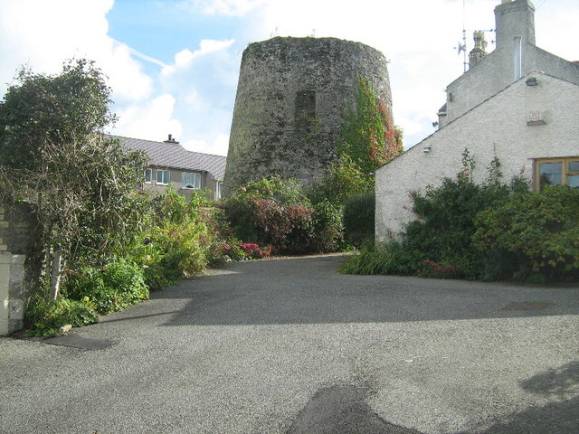 Disused windmill